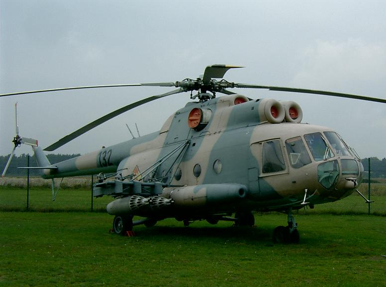 National People's Army Helicopter Mil Mi-8TB of the Kampfhubschraubergeschwader 3, Cottbus, Germany.